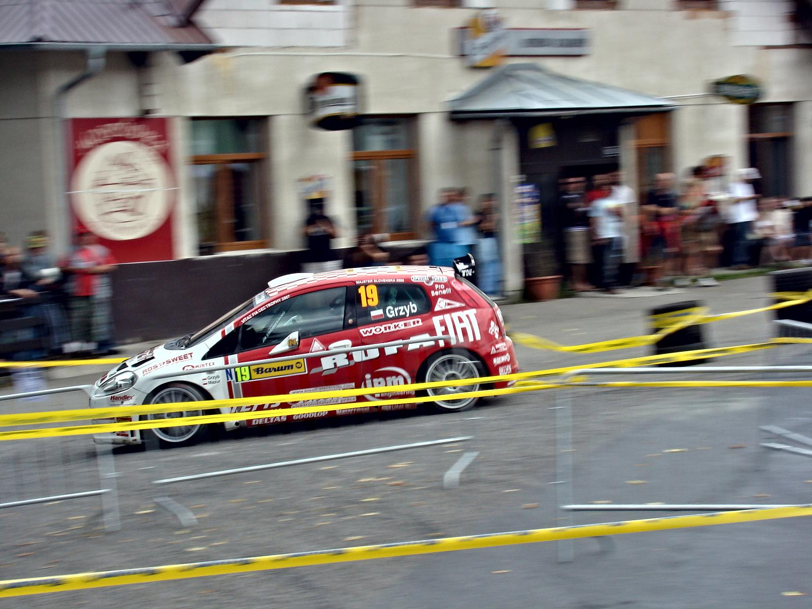 Barum Rally Zlín in 2008